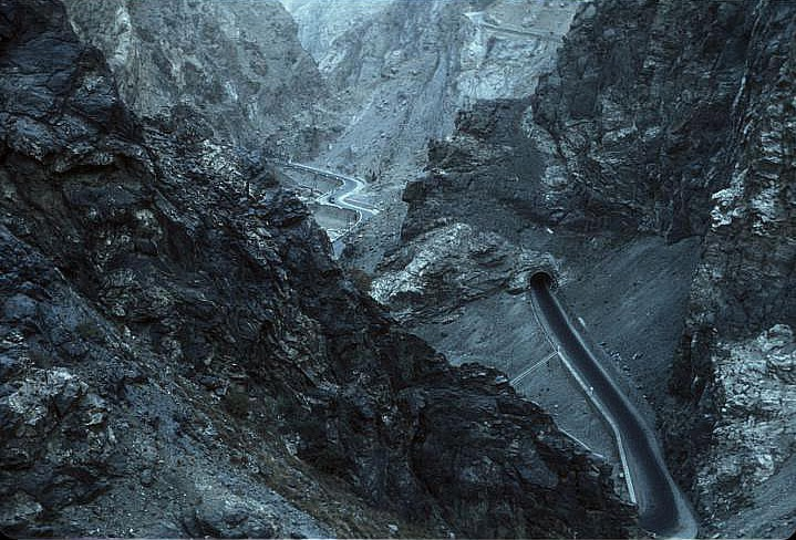 The Kabul to Jalalabad highway in Afghanistan